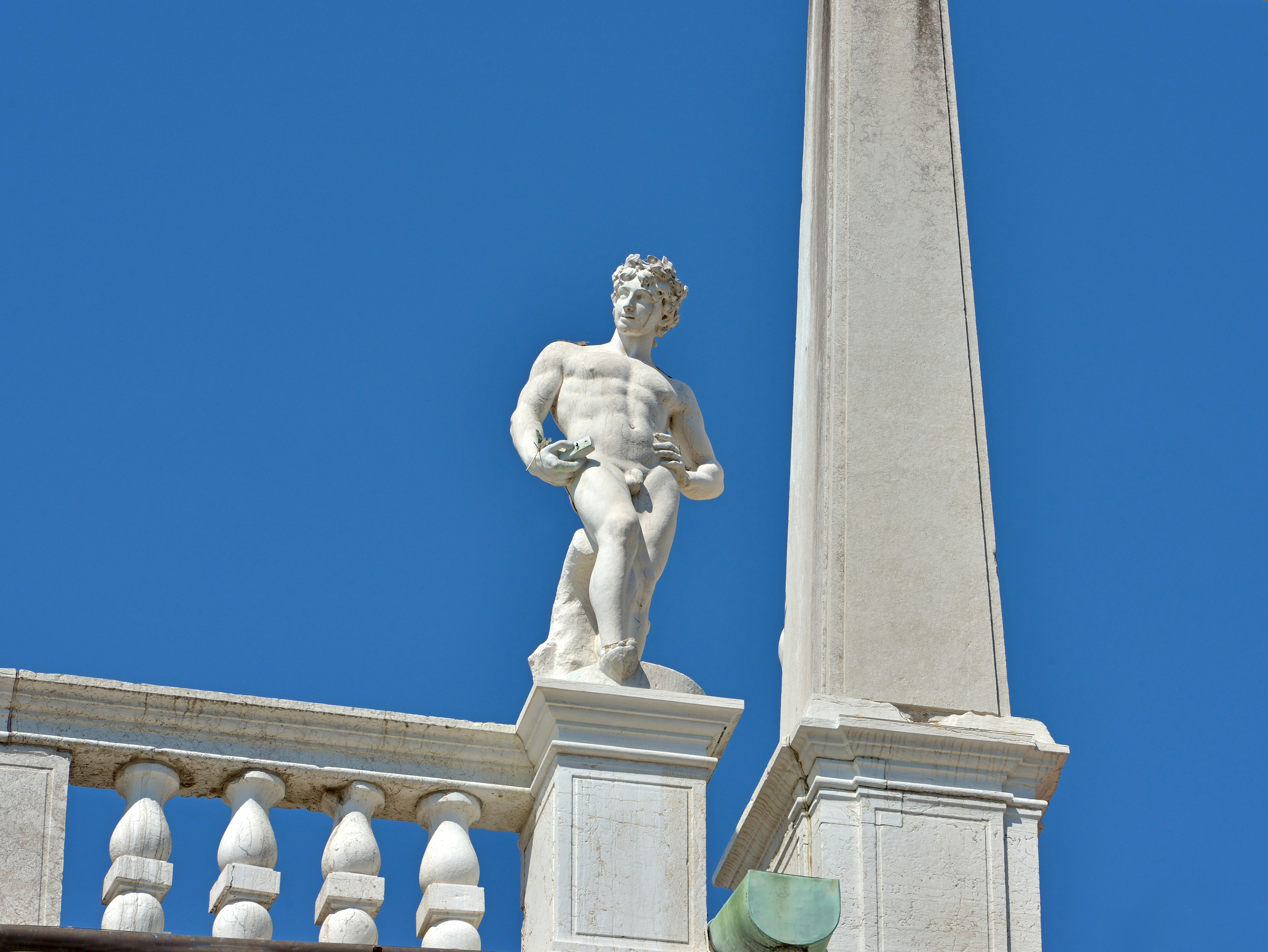 Statue of male nude (Apollo?) on the parapet of the Biblioteca Marciana in Venice.